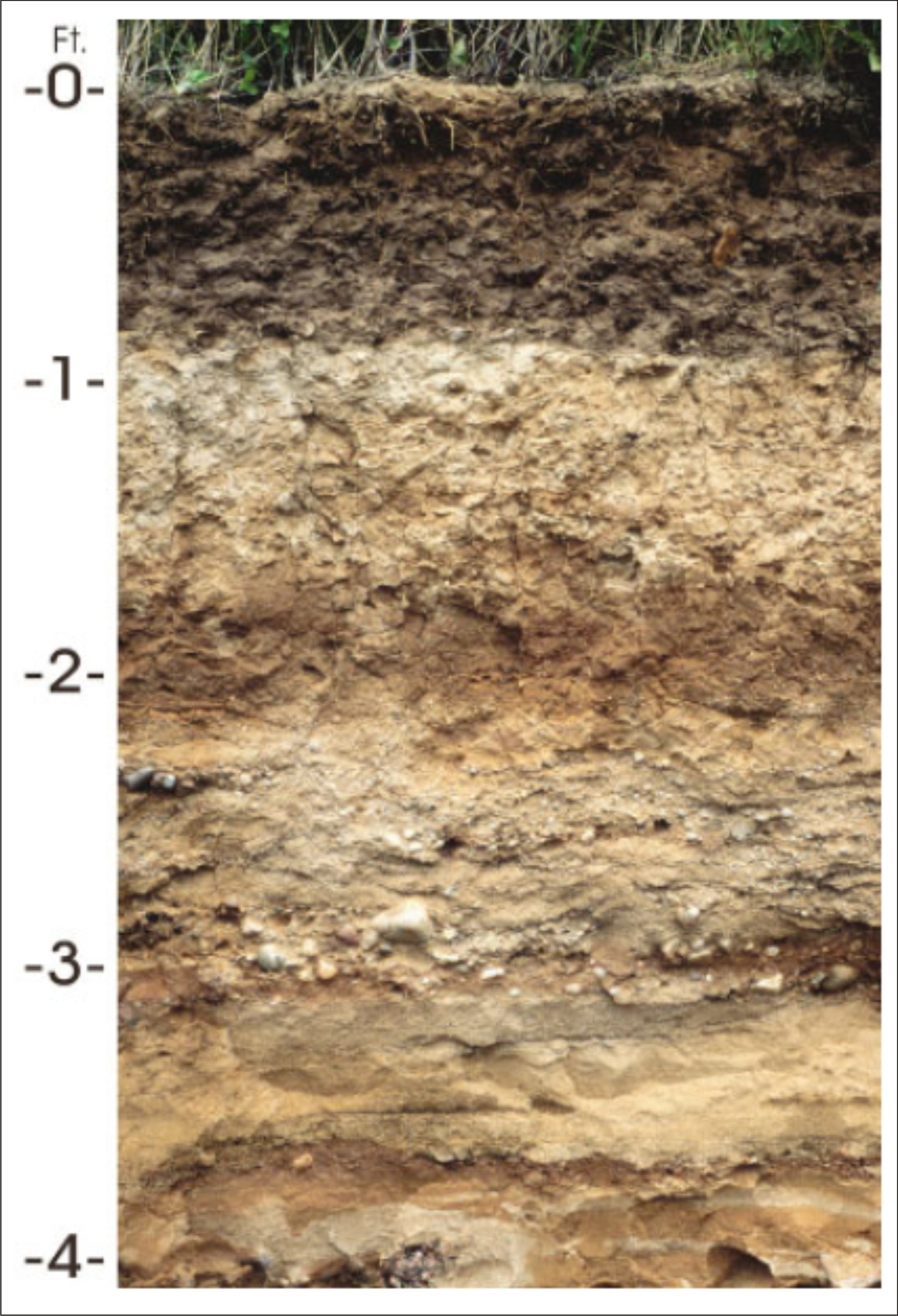 Antigo Soil Profile, Wisconsin State Soil